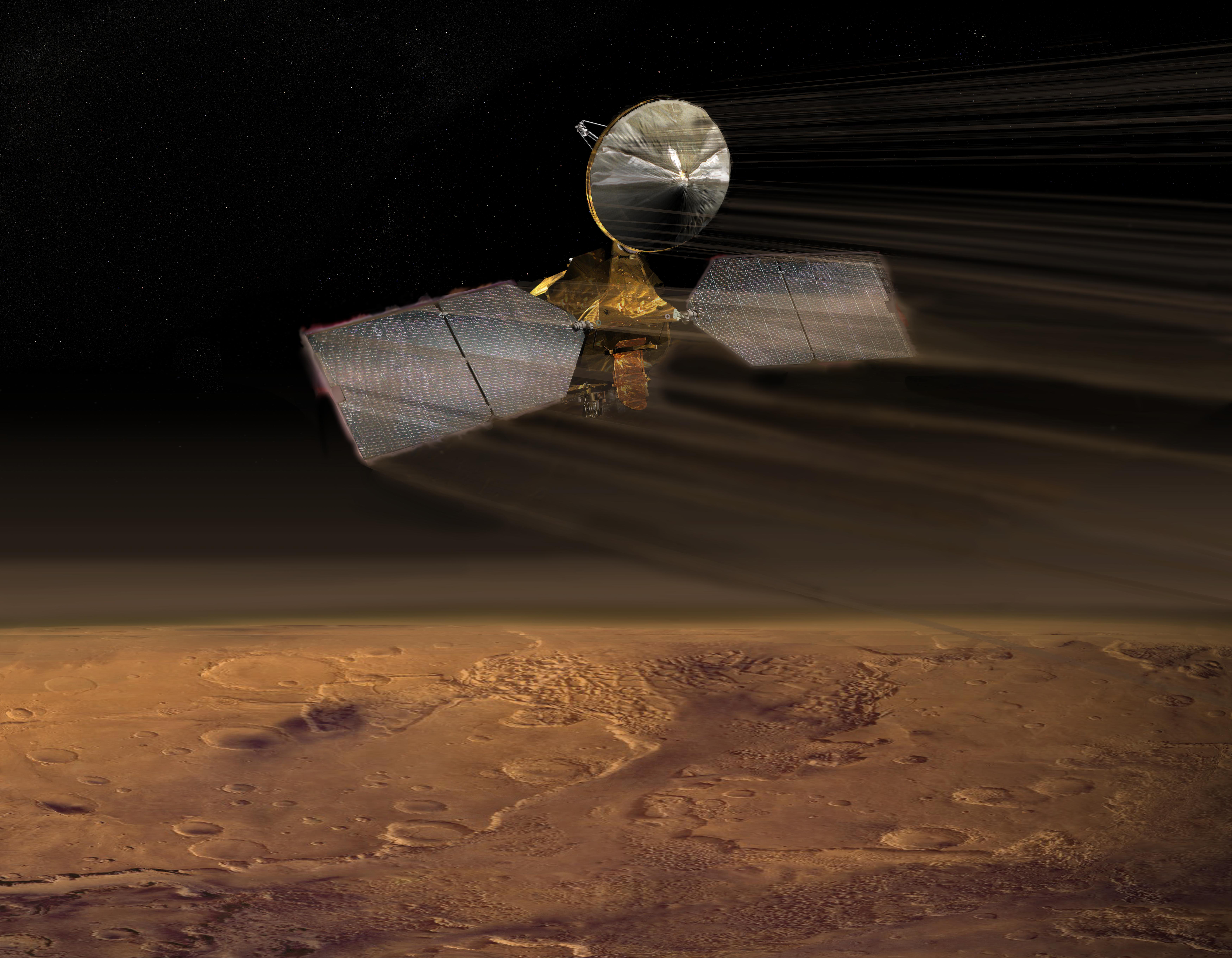 NASA's Mars Reconnaissance Orbiter dips into the thin martian atmosphere to adjust its orbit in this artist's concept illustration. NASA plans to launch this multipurpose spacecraft in August 2005 for arrival at Mars in March 2006. The plans call for controlled use of atmospheric friction in a process called aerobraking for about six months after arrival to change the initial, very elongated orbit into a rounder shape optimal for science operations. Mars Reconnaissance Orbiter is designed to advance our understanding of Mars through detailed observation, to examine potential landing sites for future surface missions and to provide a high-data-rate communications relay for those missions.